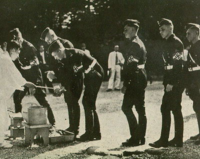 Hitlerjugend visit to Meiji Shrine purification queue in September 1938. The white dress Hitlerjugend belts were specially commissioned by the Reichsjugendführung Stab (Reich Youth Directorate staff) for this event, to contrast with the uniform and make them look smarter; they were not the normal official dress issue.